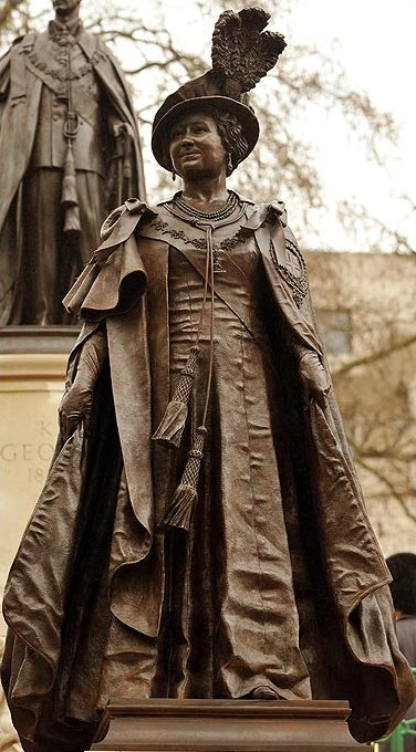 Bronze statue of Elizabeth Bowes-Lyon sculptor Philip Jackson at the George VI Memorial off The Mall, overlooked by the statue of her husband George VI of the United Kingdom (unveiled on 24 February 2009).